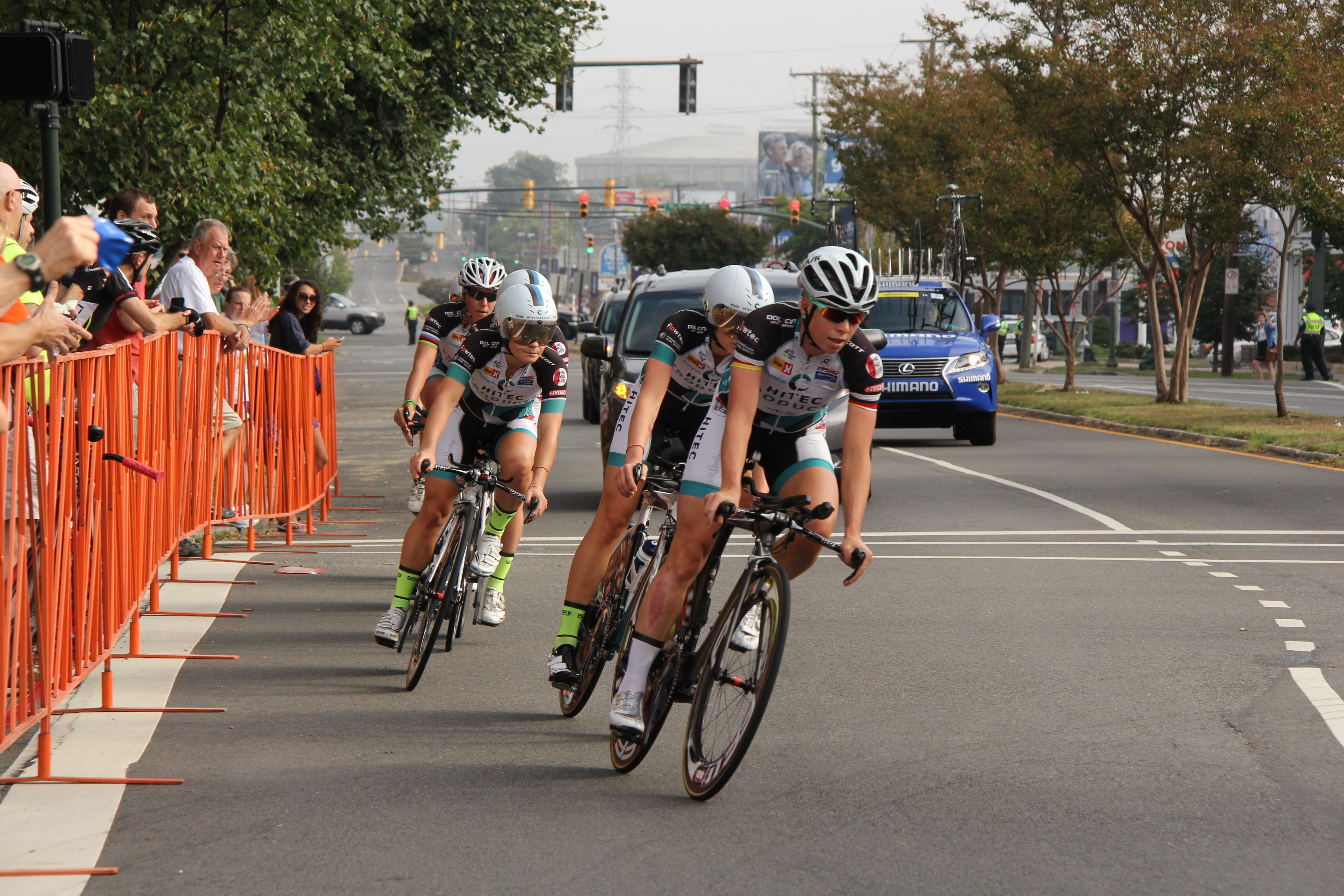 The world has come to Richmond. Welcome! Bienvenidos! Willkommen! 2015 UCI Road World Championships, in Richmond, United States